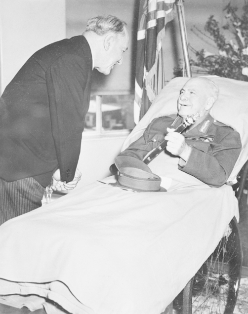 Melbourne, Victoria, 1950-09-16. In a ceremony at Heidelberg repatriation hospital the Governor General, Rt Hon W.J. McKell, presented on behalf of His Majesty the King, the field marshal's baton to Field Marshal Sir Thomas Blamey, GBE, KCB, CMG, DSO. Distinguished guests included the Governor of Victoria, Sir Dallas Brooks; the Prime Minister, Rt Hon R.G. Menzies, together with cabinet ministers, senior defence force officers, Lady Blamey and relatives.